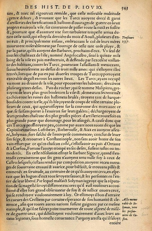 Corfu Angelokastro by Jovio